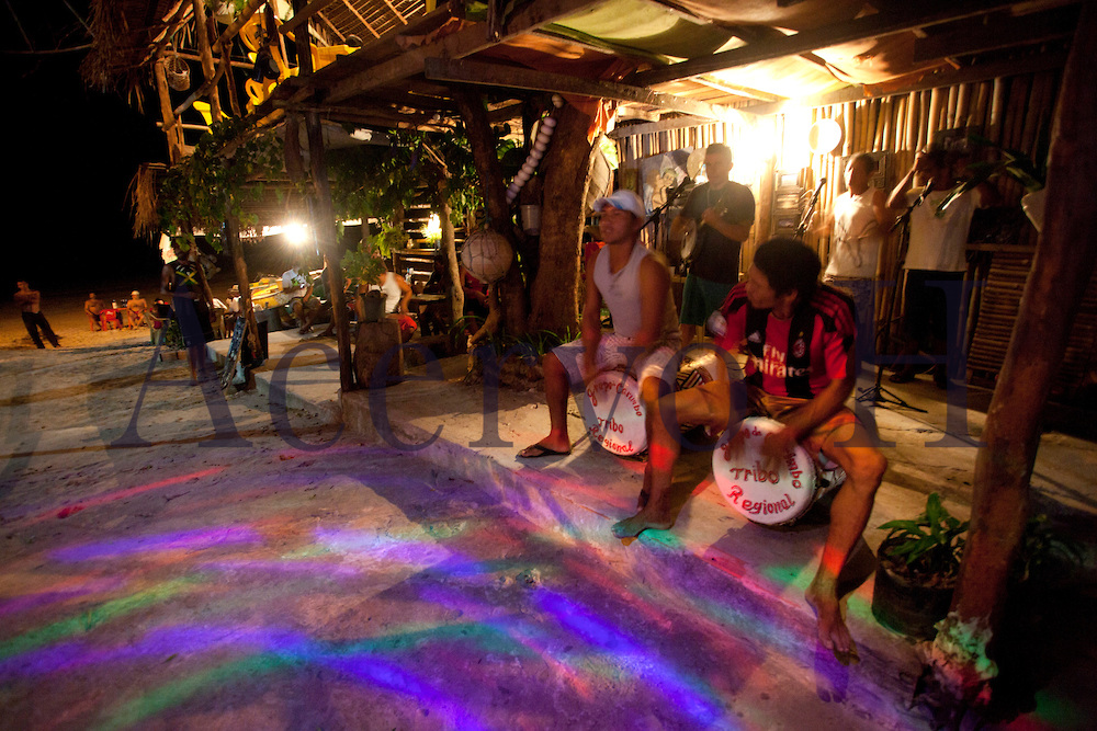 River Arm Between the village and the princess's beach.